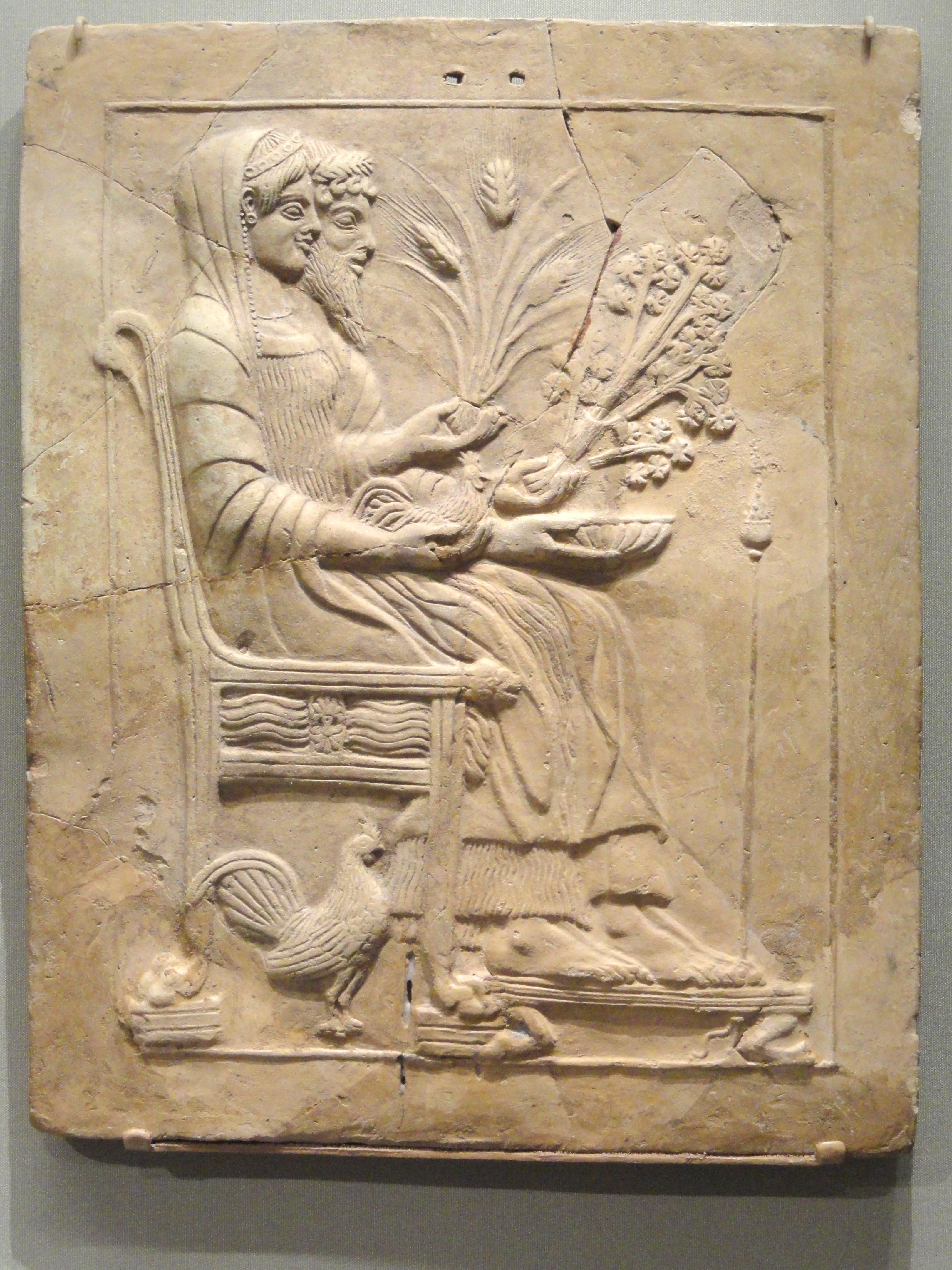 Pinax with Persephone and Hades Enthroned, 500-450 BC, Greek, Locri Epizephirii, Mannella district, Sanctuary of Persephone, terracotta - Exhibit in the Cleveland Museum of Art, Cleveland, Ohio, USA. This artwork is old enough so that it is in the public domain.